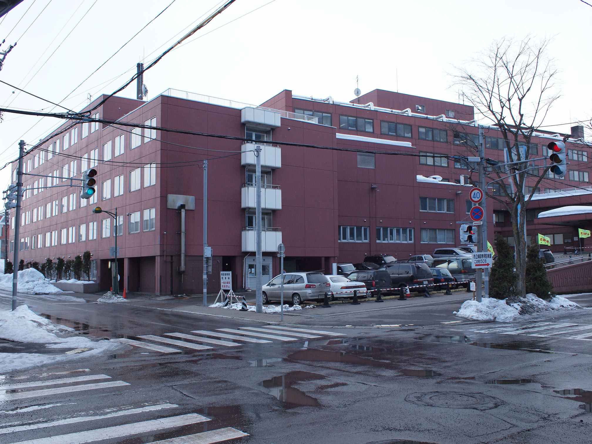 Sunagawa municipal hospital, Sunagawa, Hokkaido, Japan